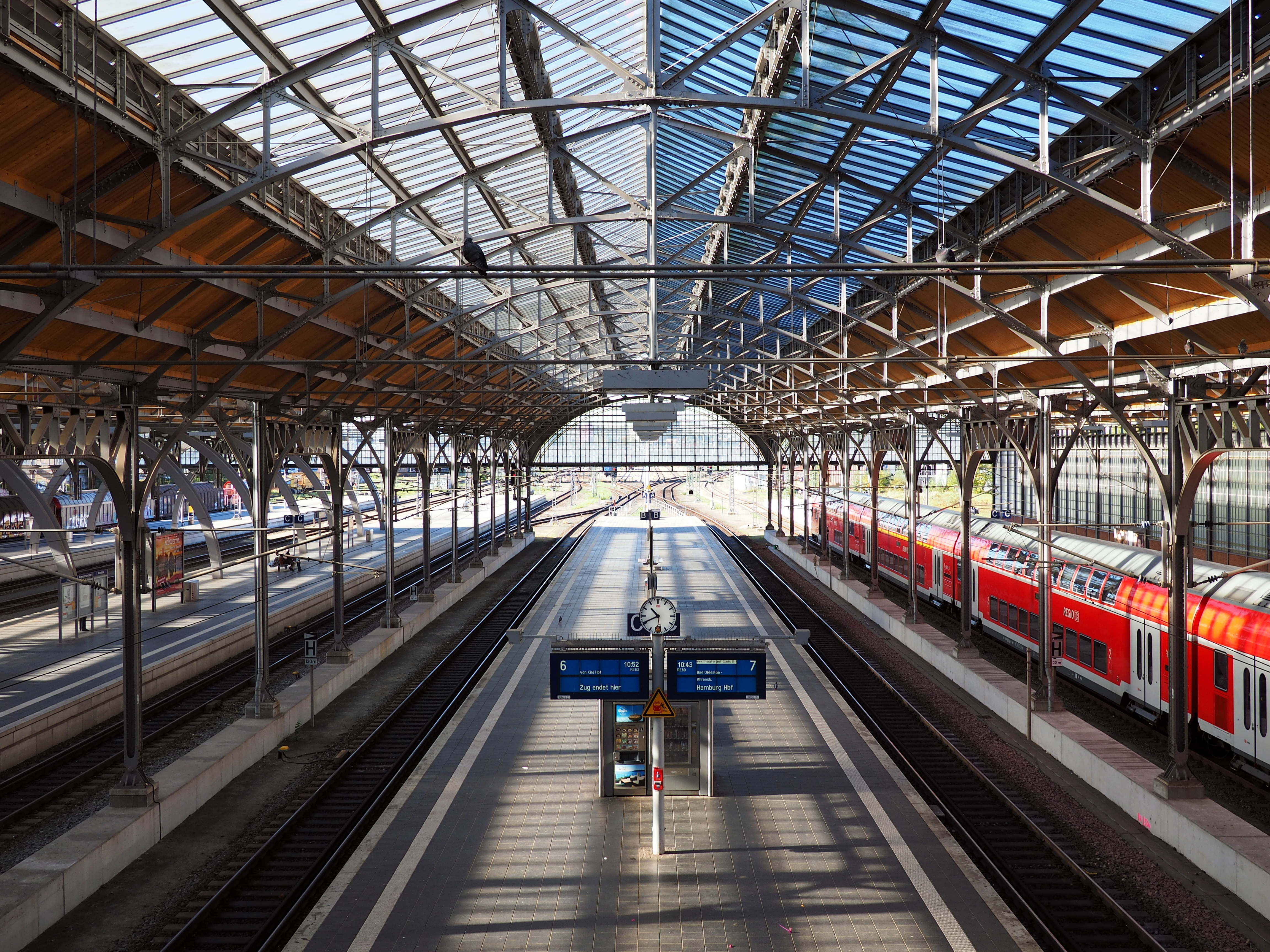 Platforms 6 and 7 at Lübeck Hauptbahnhof viewed from the top of the stairs above the platforms